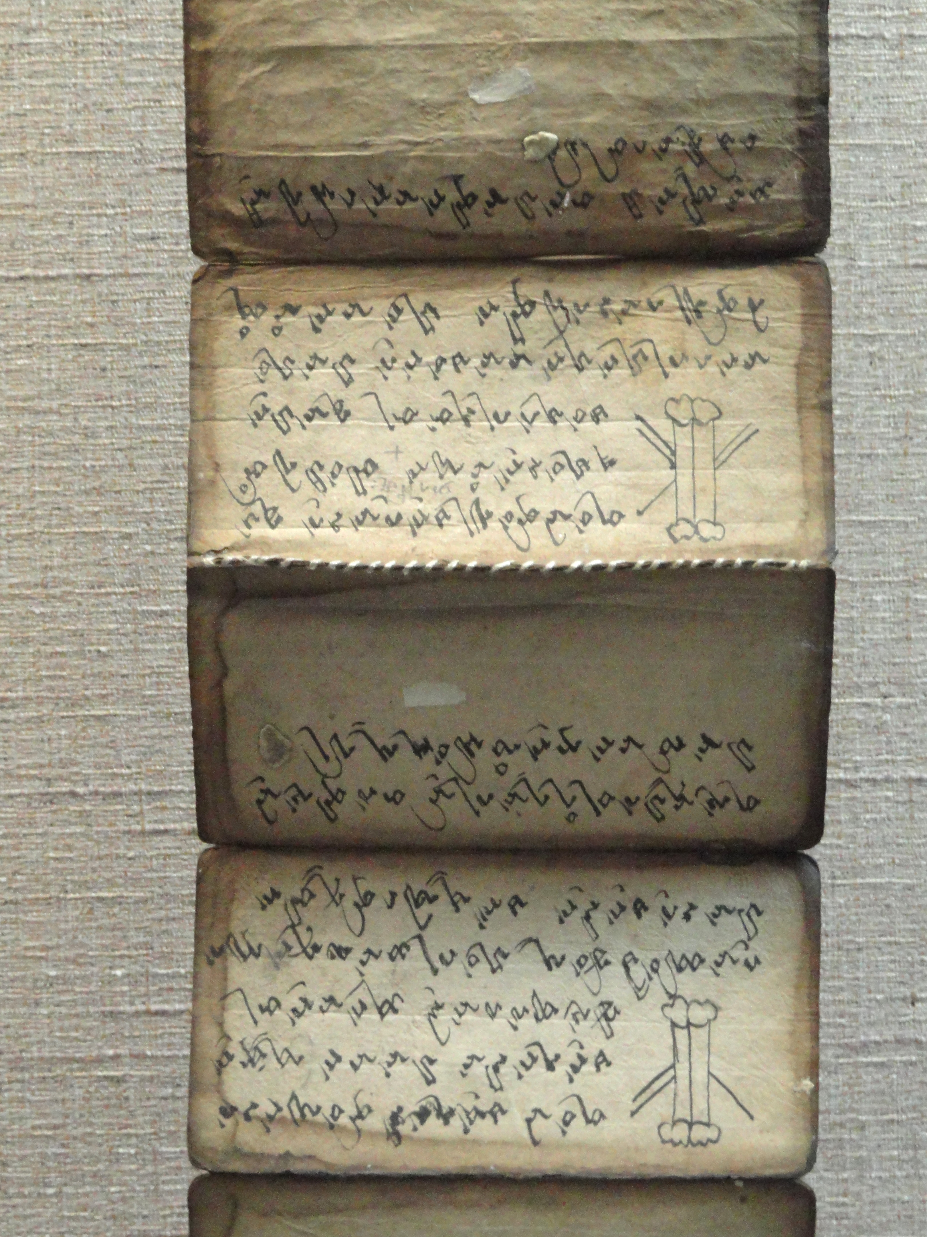 Dai scripture on mulberry-bark paper. Manuscripts / writing systems in the Yunnan Nationalities Museum, Kunming, Yunnan, China.